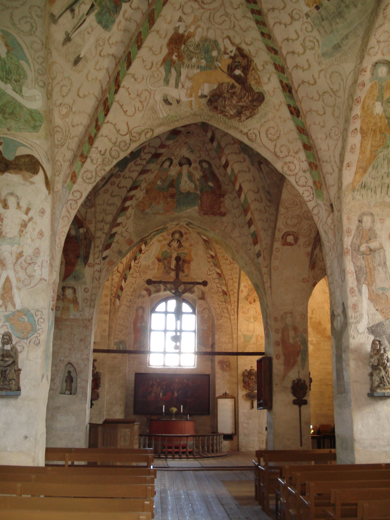 Church of the Holy Cross (Pyhän Ristin kirkko) in Hattula, Finland. Interior view.